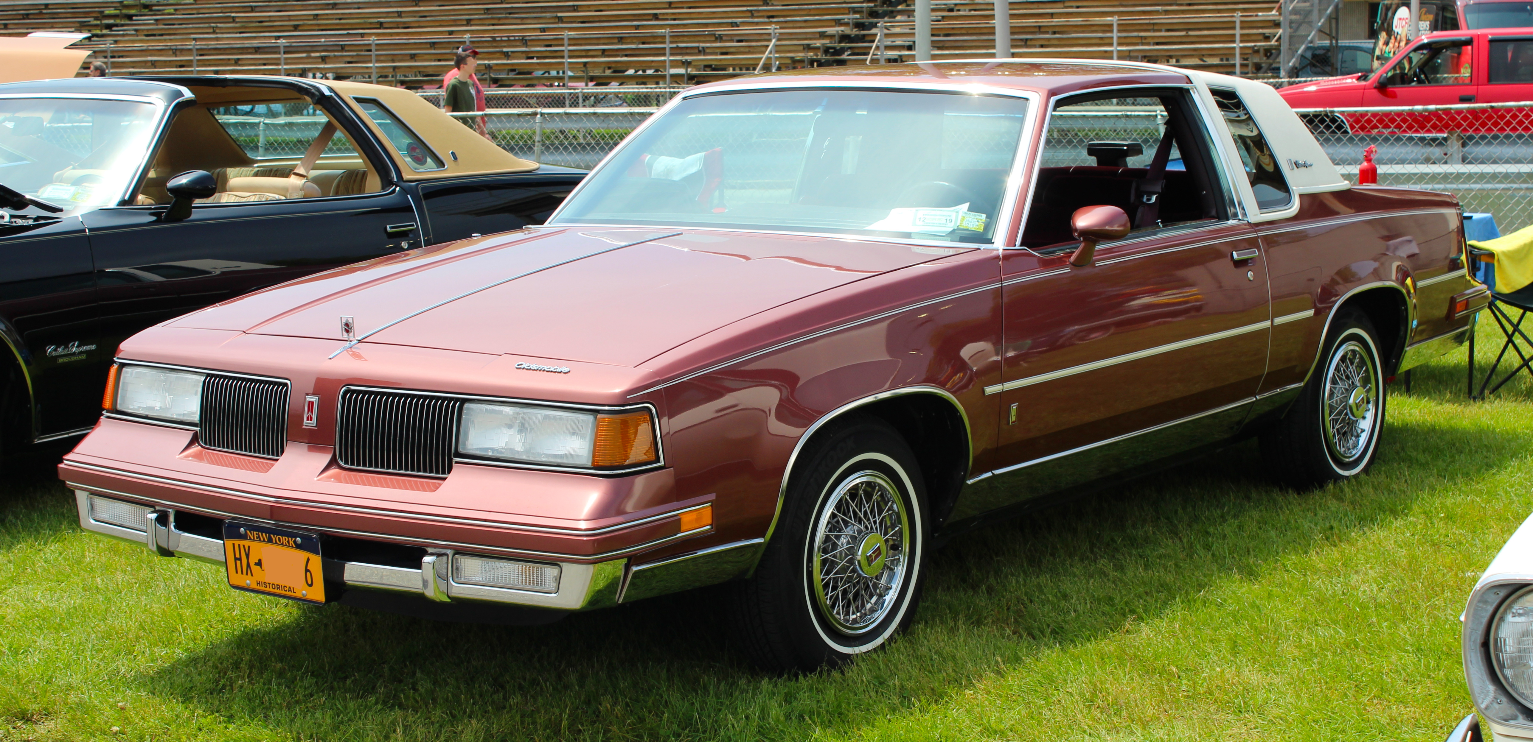 A 1988 Oldsmobile Cutlass Supreme coupe photographed during at a classic car show, in Merrick, New York, USA